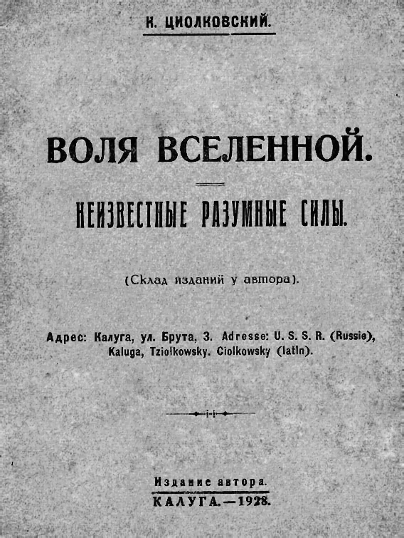 The Cover of the book "The Will of the Universe. Unknown Intelligent Powers" by Konstantin Eduardovich Tsiolkovsky